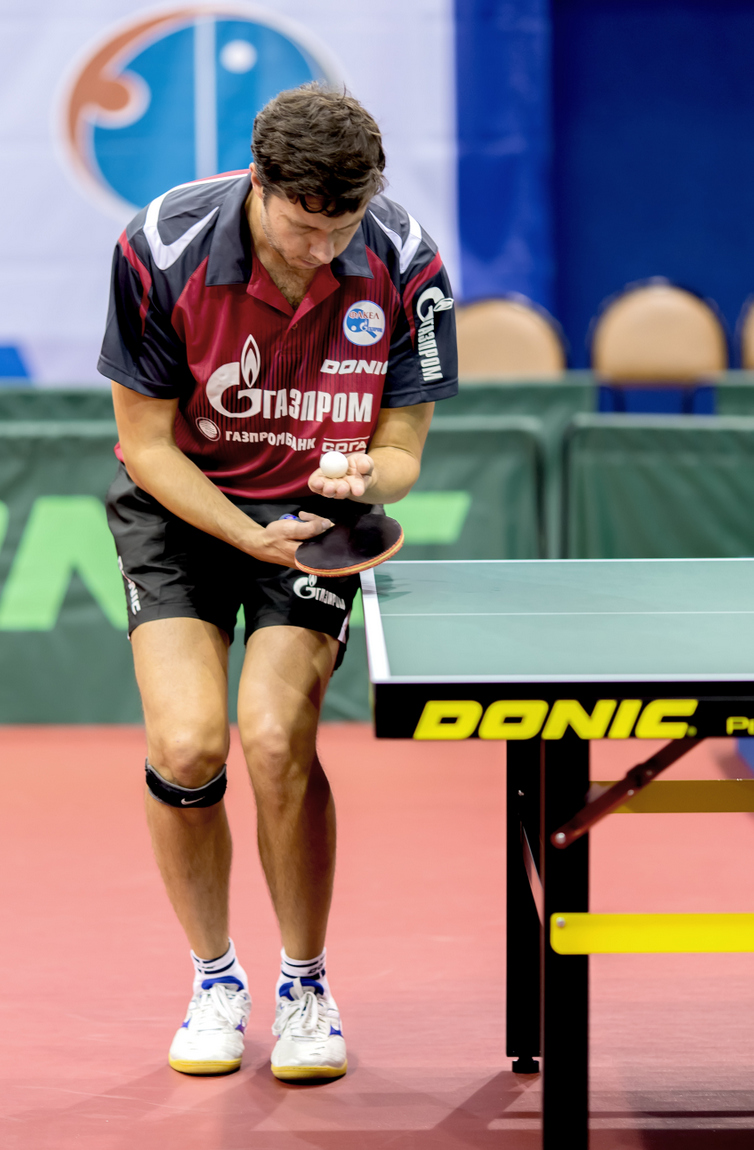 Vladimir Samsonov during final match of Russian premier league (season 2012-13) in Moscow